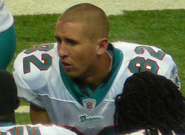 If used somewhere other than Wikipedia, Nelson, by name.